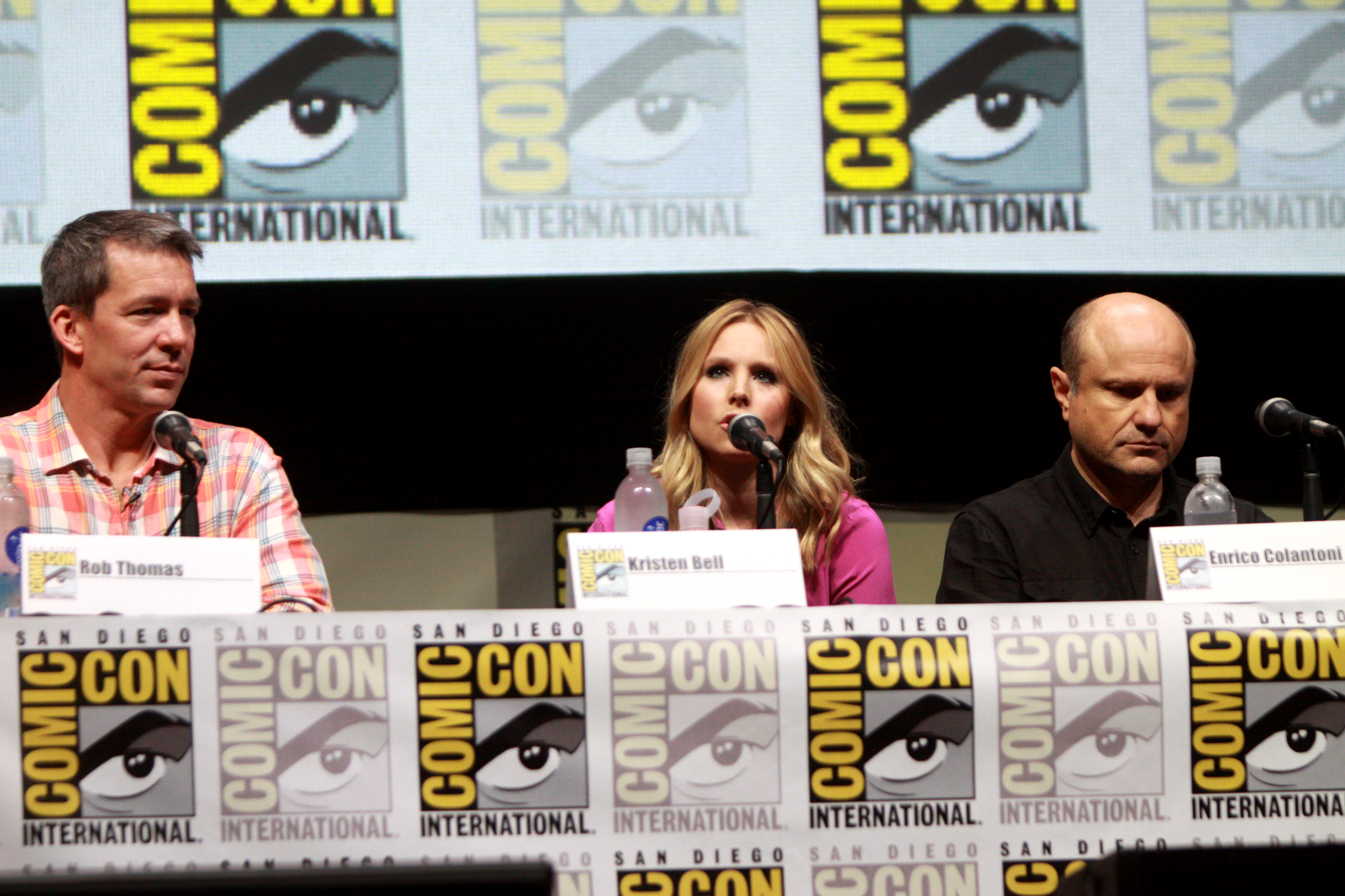 Rob Thomas, Kristen Bell and Enrico Colantoni speaking at the 2013 San Diego Comic Con International, for "Veronica Mars", at the San Diego Convention Center in San Diego, California.